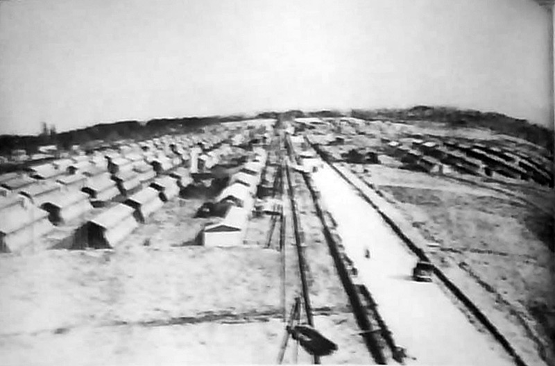 View of the Gurs internment camp in southern France.